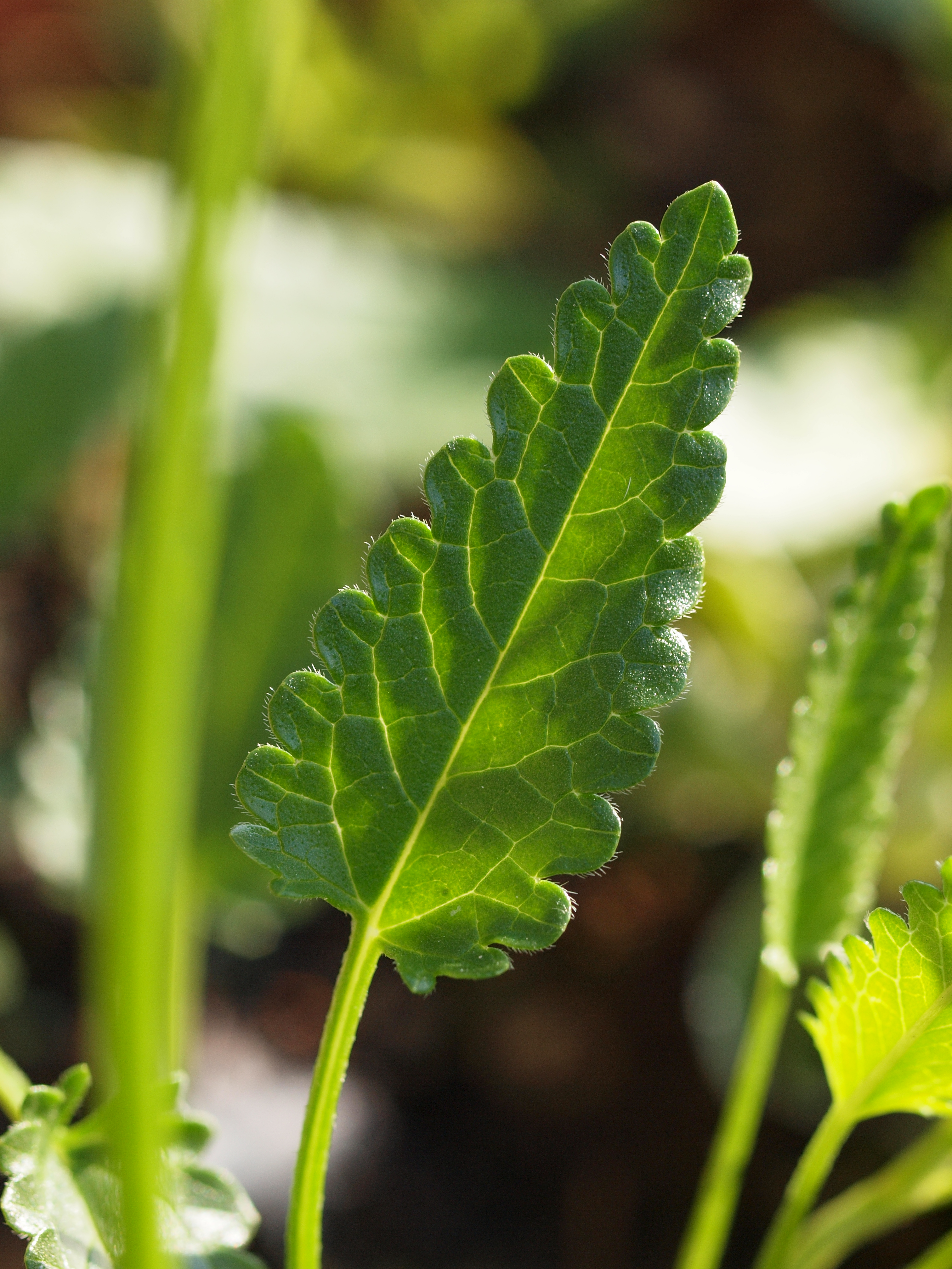 Betonica officinalis s.l. leaf from high mountain plant variety Mt Orjen Montenegro